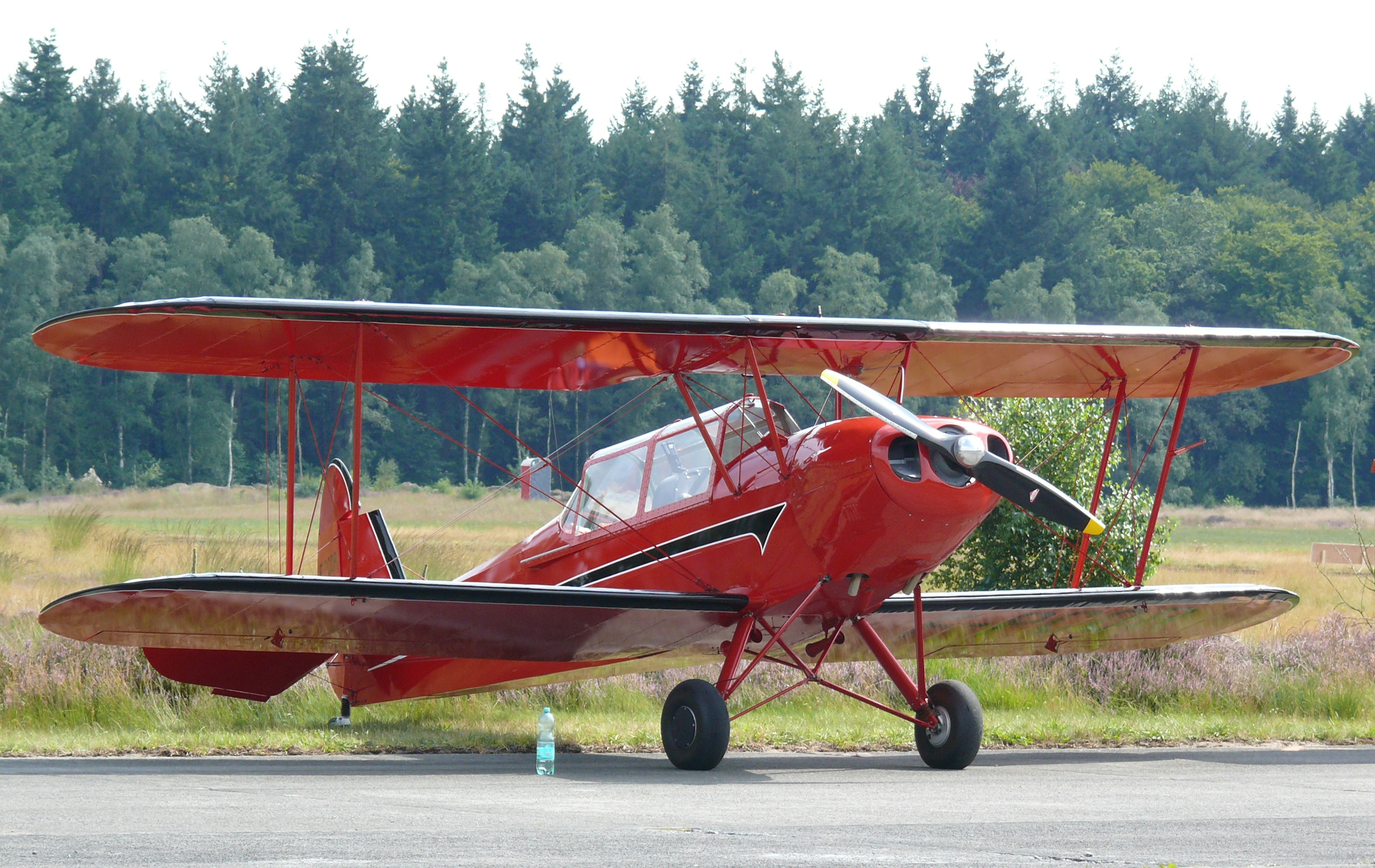 Stampe en Vertongen SV.4E F-PCOR at the PhotoFlying Days in Malle, Belgium. Designated SV.4E because it had a Lycoming motor built in.